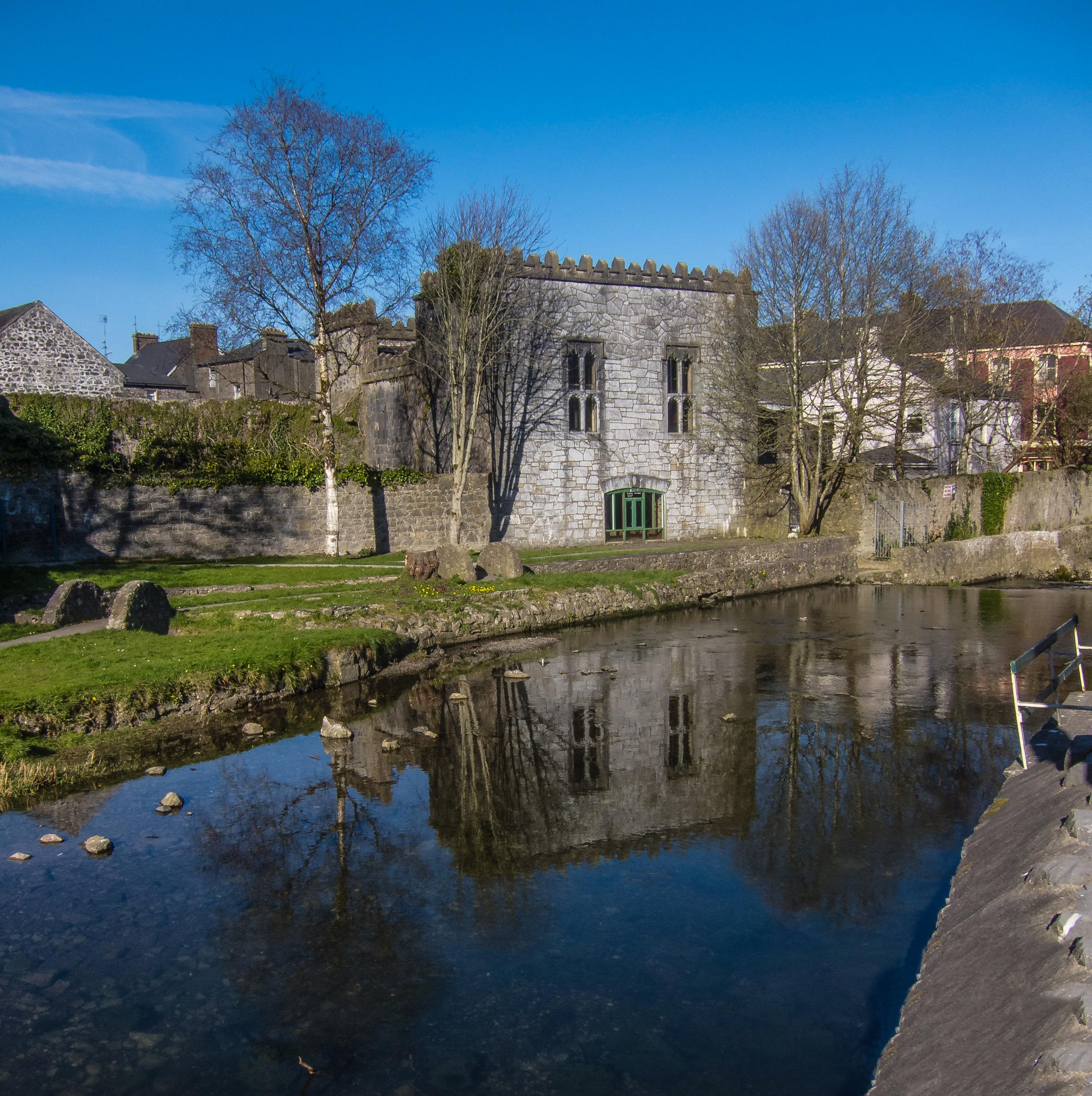 Desmond Hall - Great Hall Medieval Castle Complex Castle Demesne